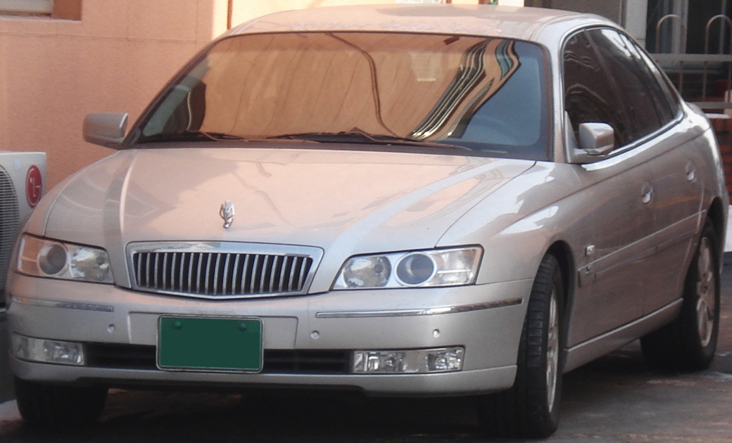 Daewoo Statesman